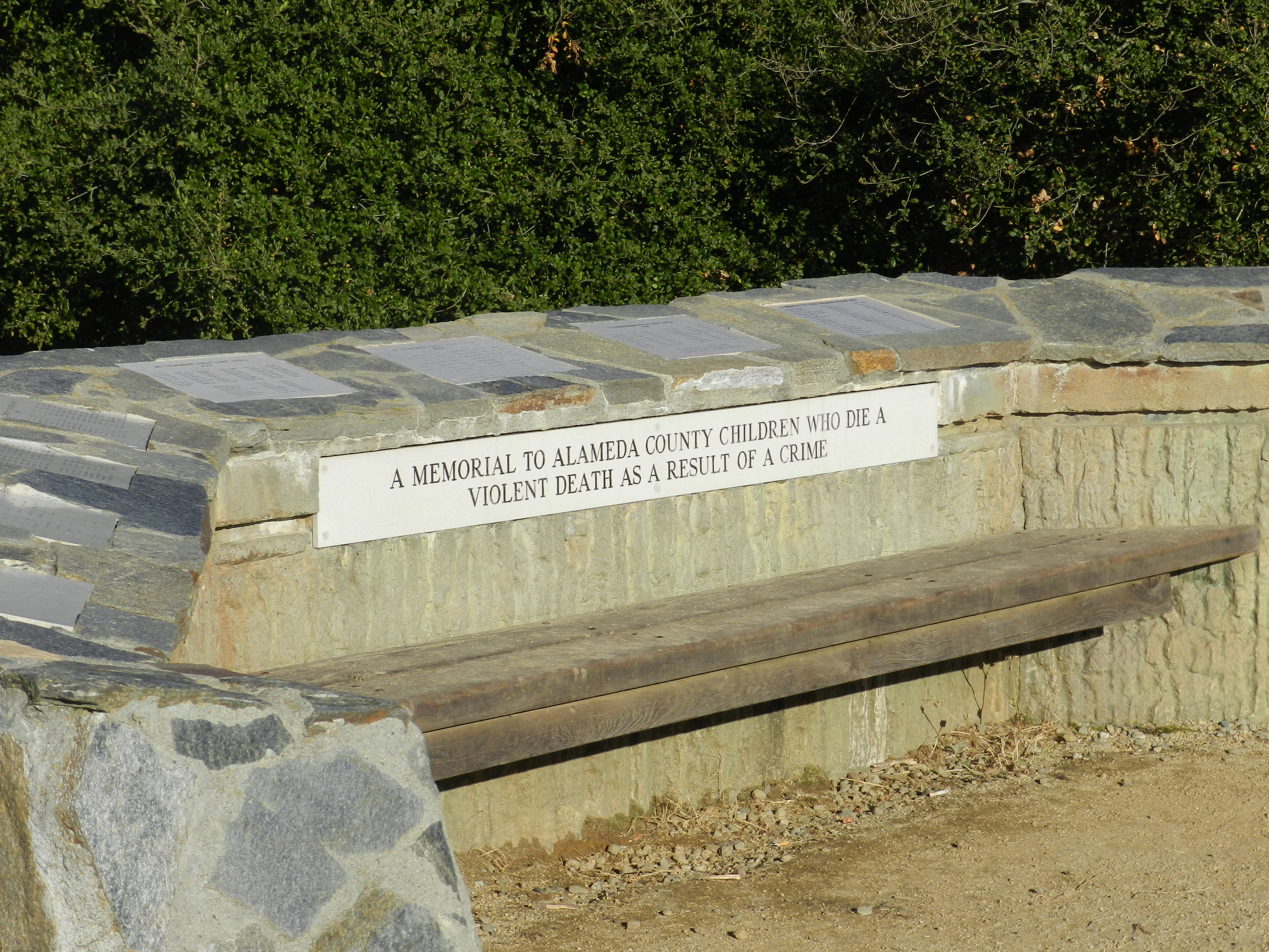 Children's Memorial Grove, stone memorial w/annual plaques, Fairmont Ridge Staging Area, Chabot Regional Park, San Leandro, California